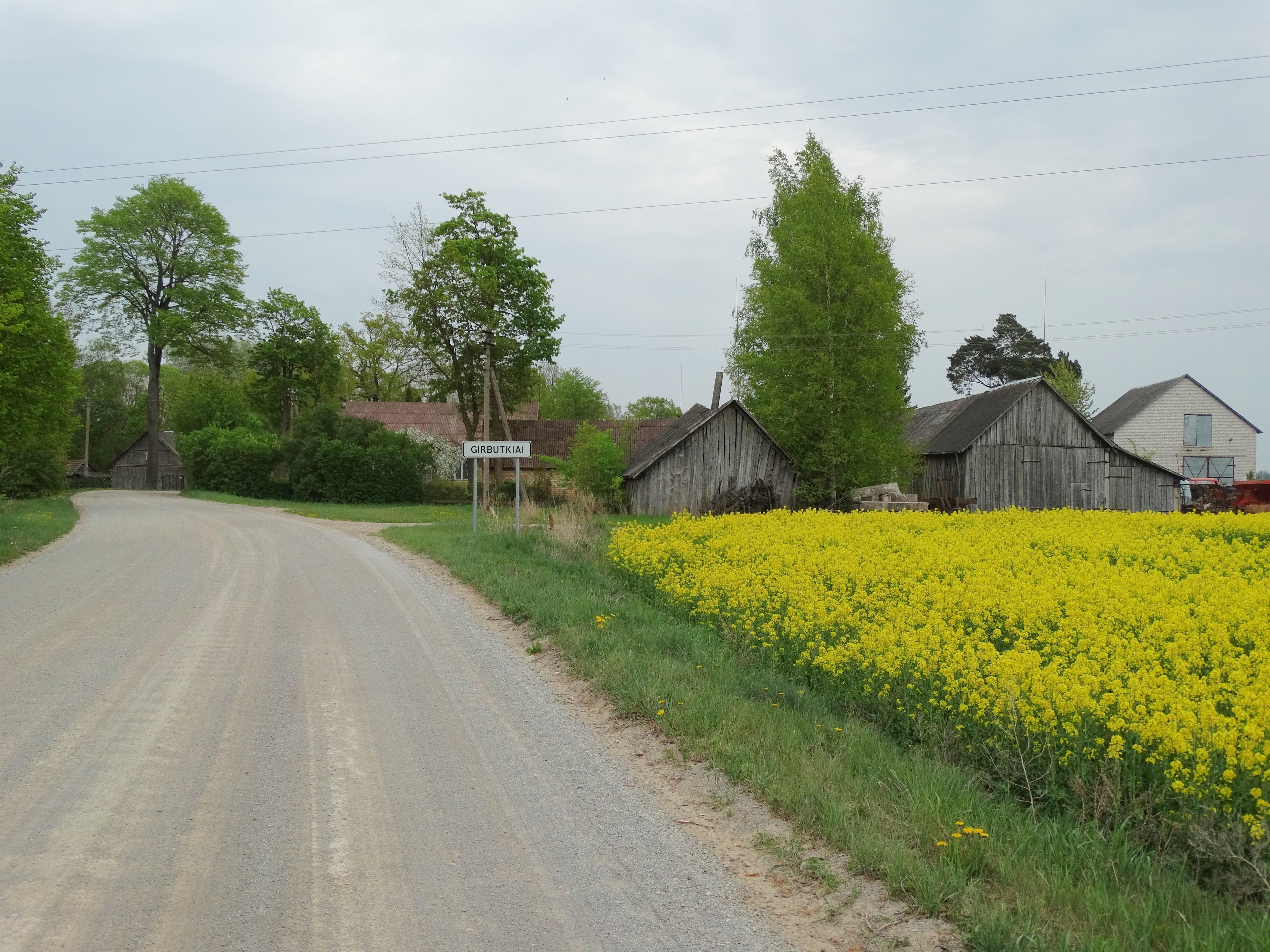 Girbutkiai, Pakruojis District, Lithuania